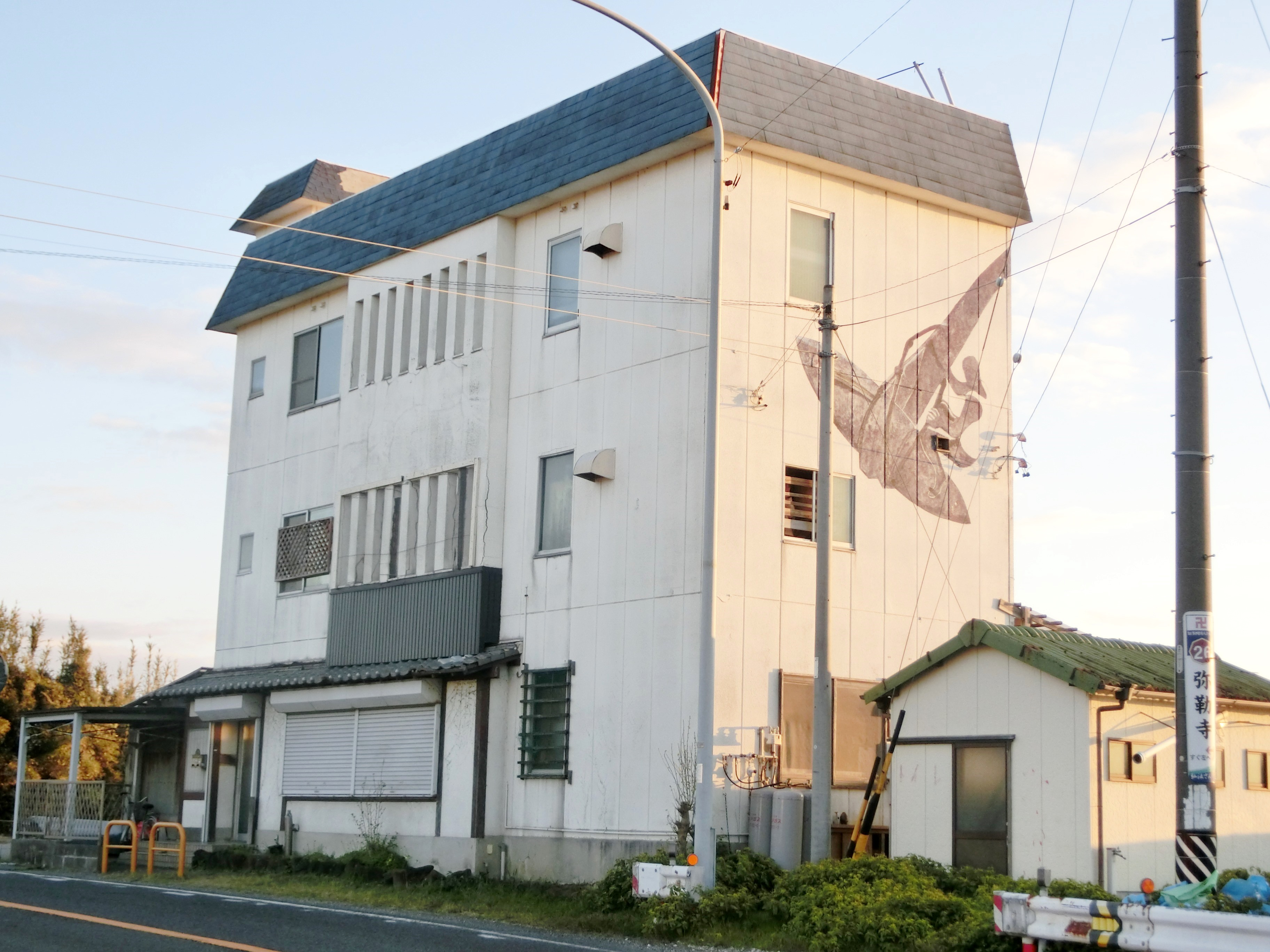 Totsuka Yacht School